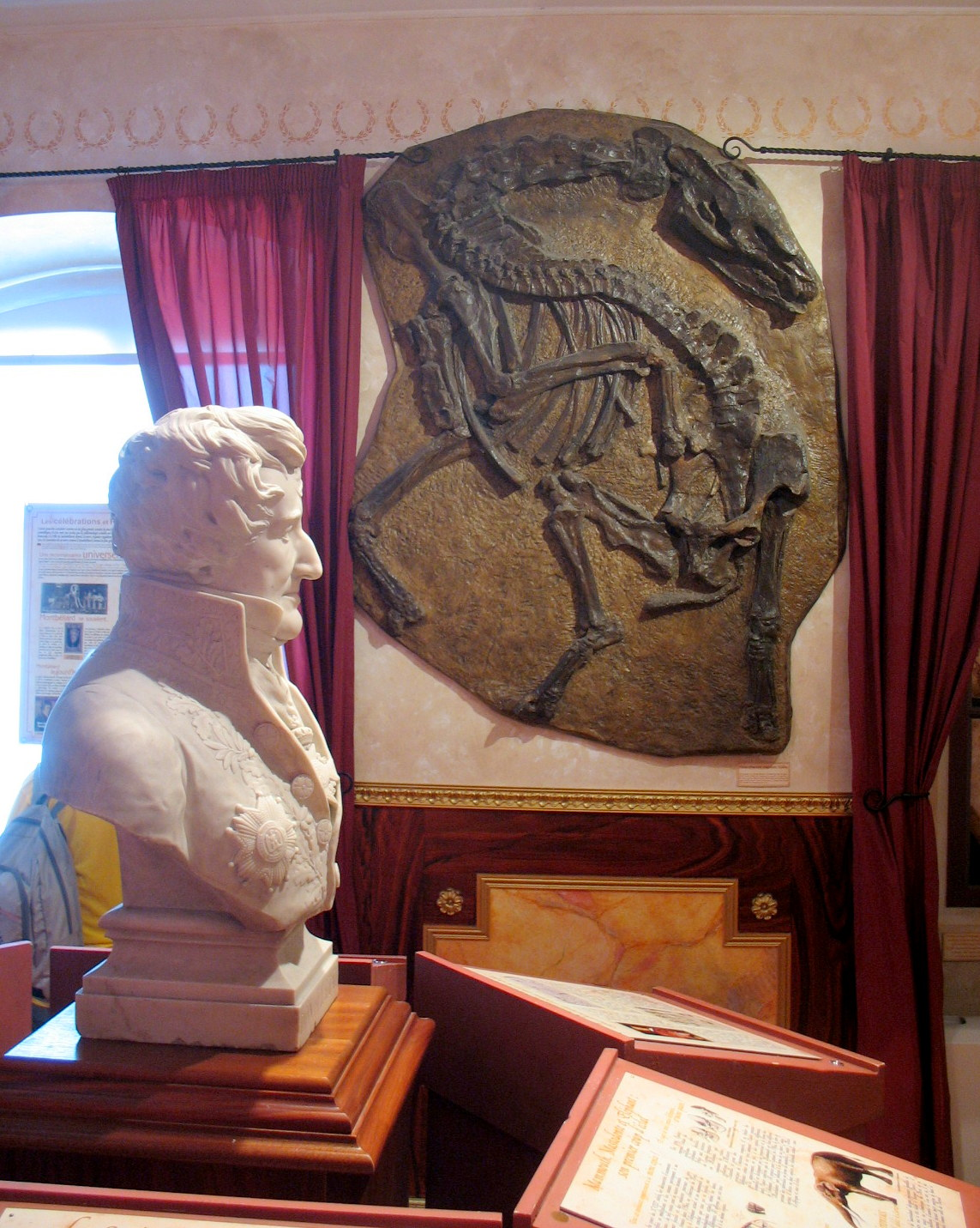 Cuvier bust and Palaeotherium magnum fossil (replica). Montbéliard Museum of Archeology and Natural History (France). George Cuvier Natural History Gallery.